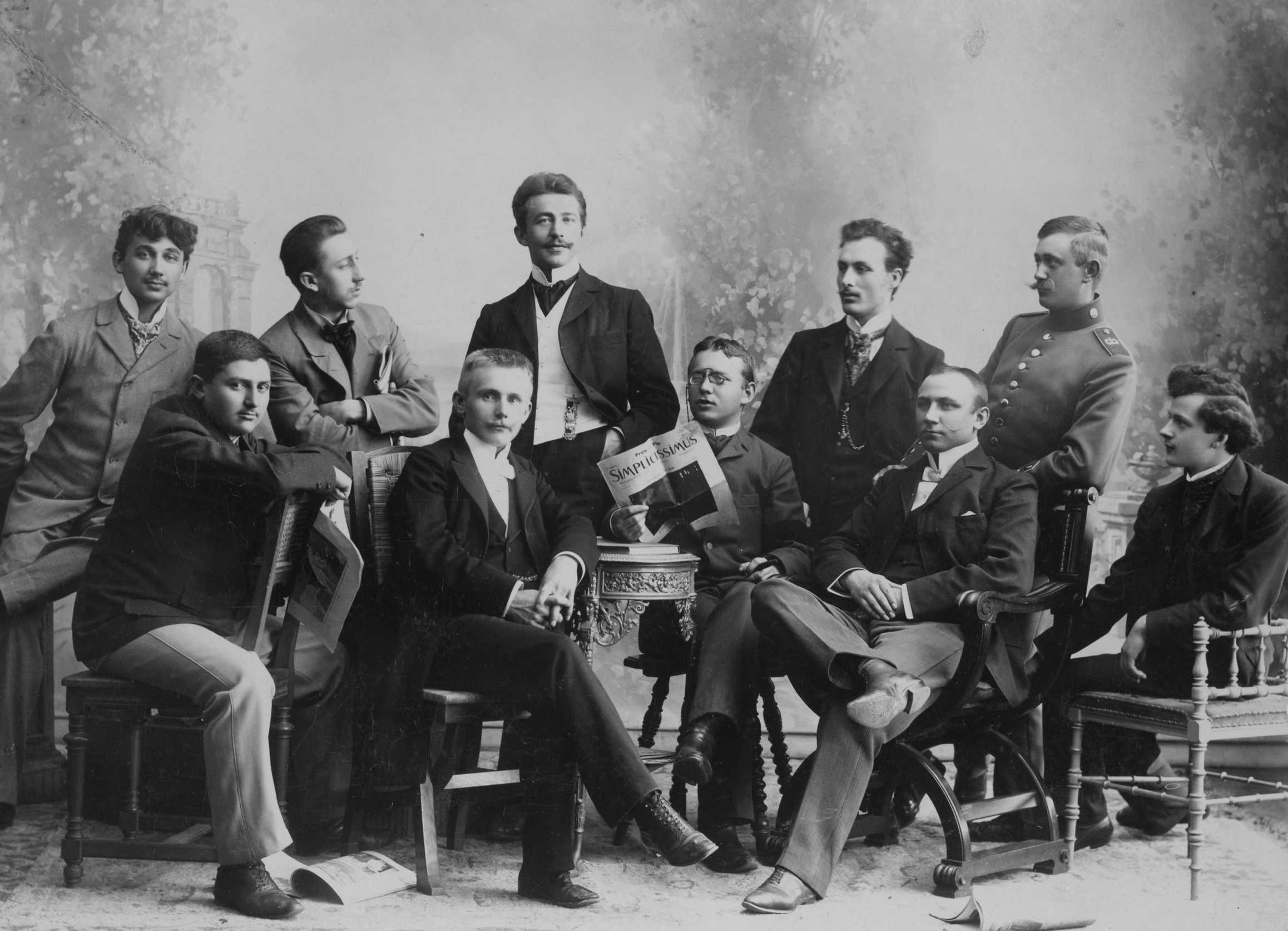 Circle of Simplicissimus with Karl Arnold 1907